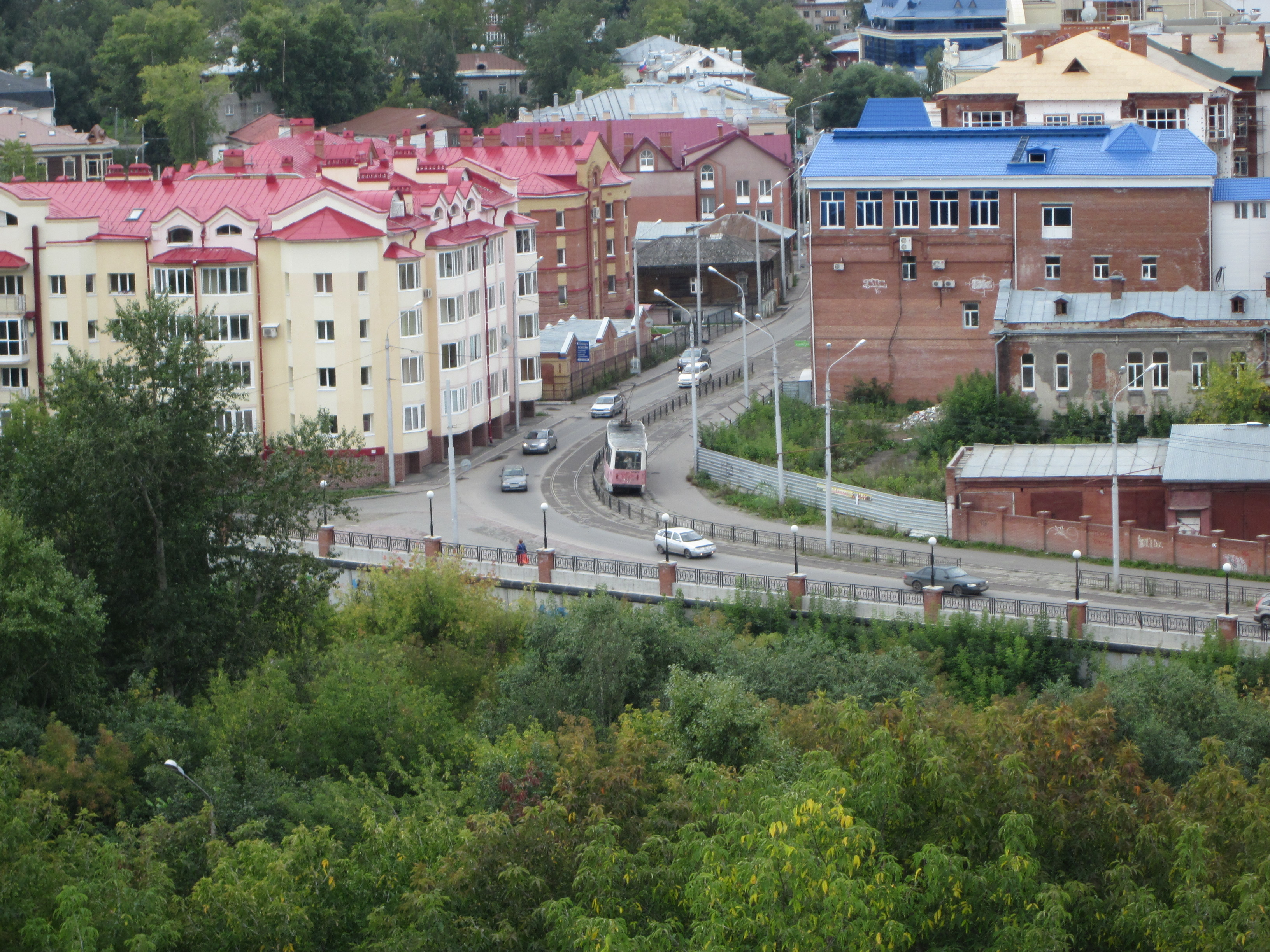 View of Tomsk, Russia